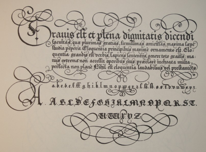 Calligraphy example